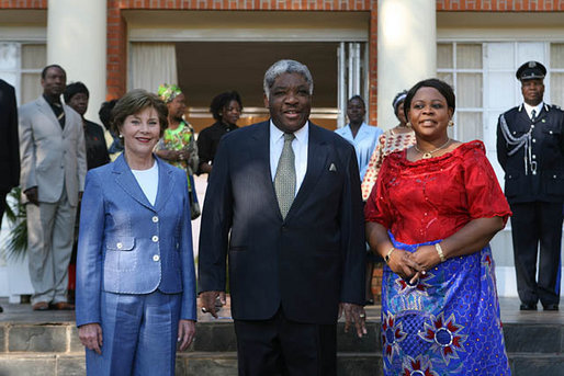 United States First Lady Laura Bush (left) meets with Zambian President Levy Mwanawasa and First Lady Mrs. Maureen Mwanawasa at State House Thursday, June 28, 2007, in Lusaka, Zambia.